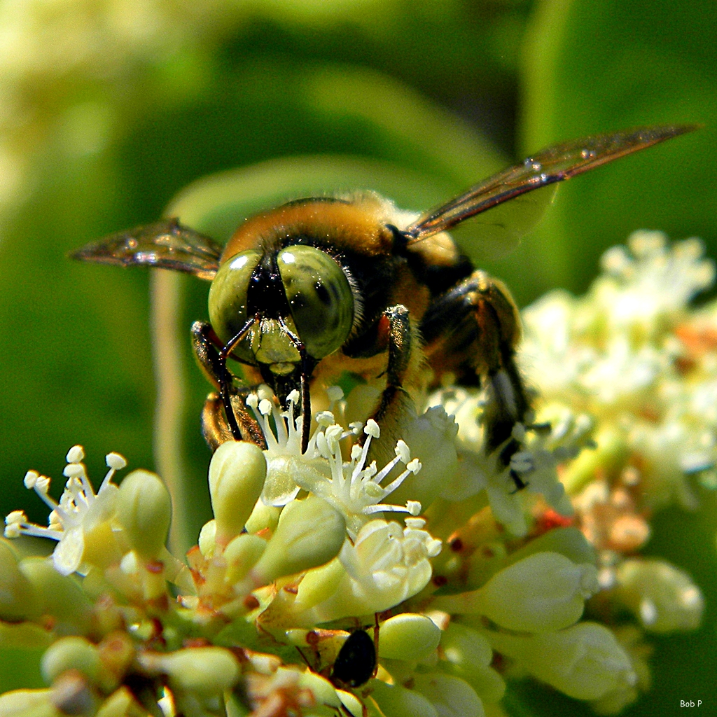 Another view of the southern carpenter bee (Xylocopa micans) pollinating a seagrape tree.